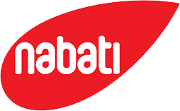 Nabati brand logo used by PT Kaldu Sari Nabati Indonesia